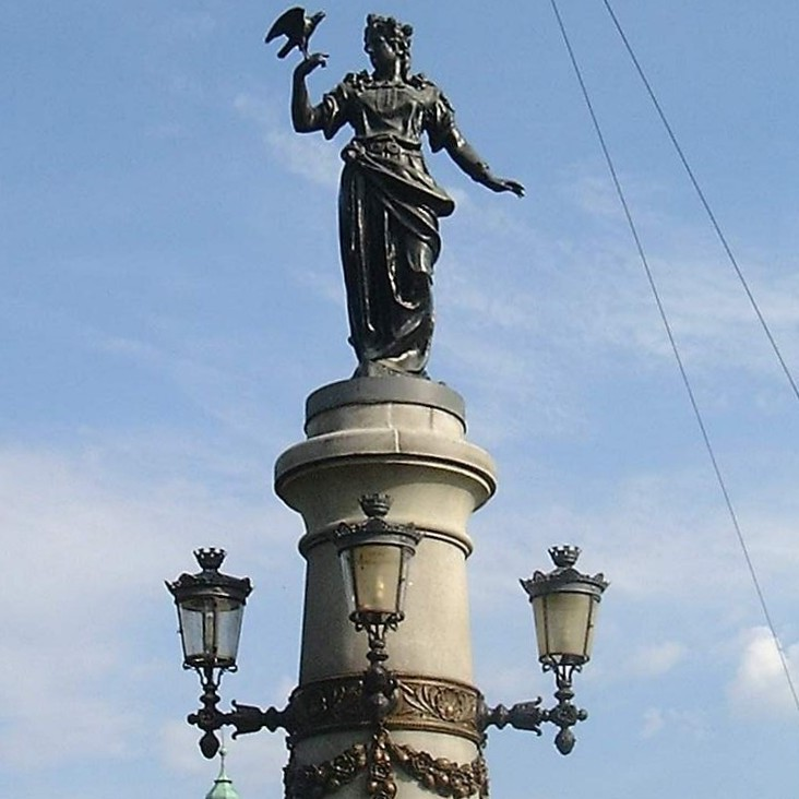 Sculpture depicting Freyja